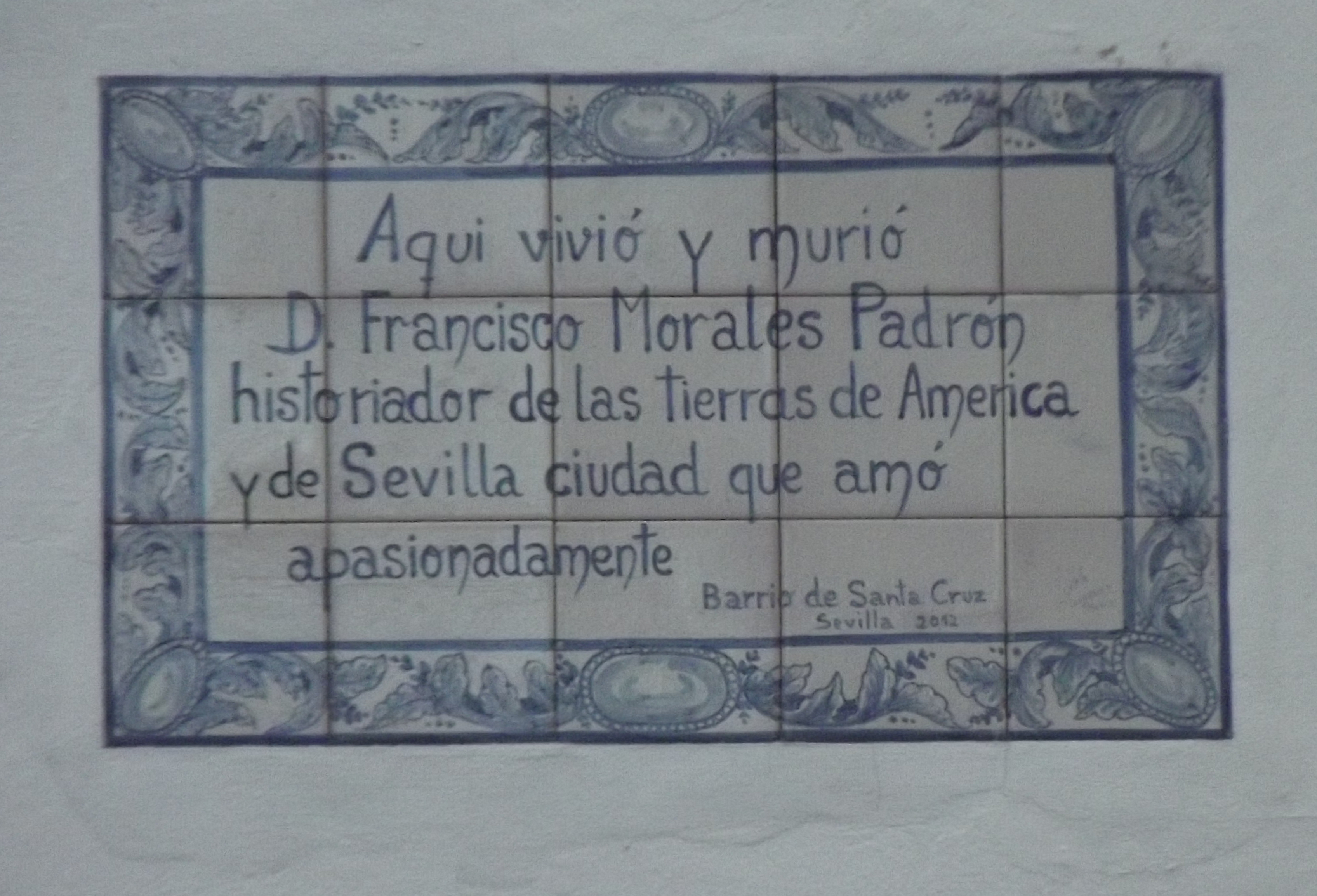 Francisco Morales Padrón's plaque in Seville (barrio de Santa Cruz).